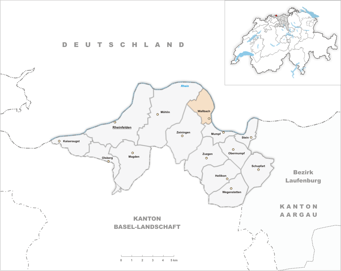 Municipality Wallbach